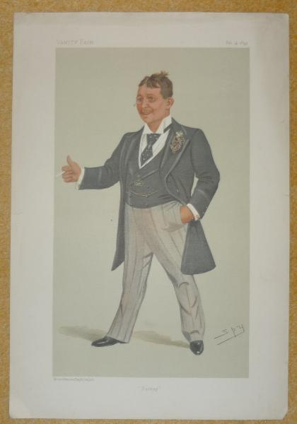 Men of the Day No.0612: Caricature of Mr BI Barnato. Caption reads: "Barney"